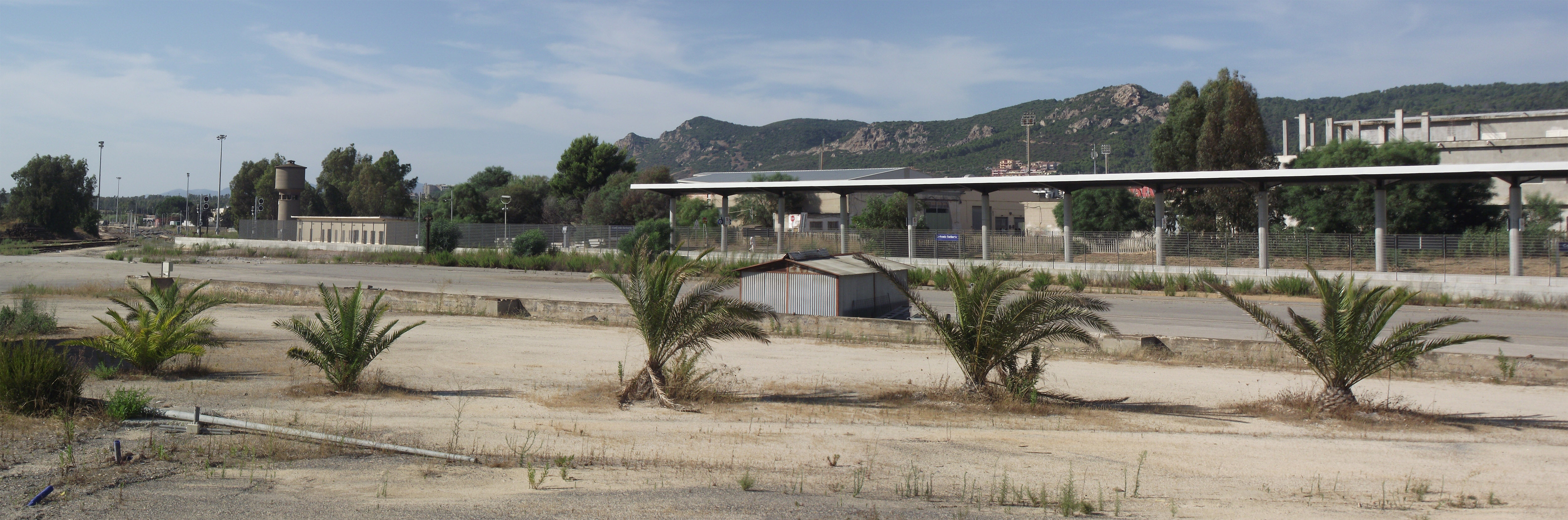 The final track of the Villamassargia-Carbonia railway, between the Carbonia Stato station and the Carbonia Serbariu one, in Carbonia, Sardinia, Italy.